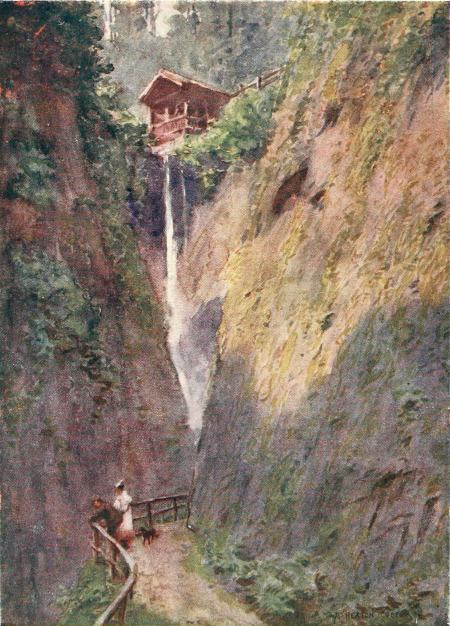 Caption: The picturesque ravine carved by a small stream on the south side of the town. Painted by A. Heaton Cooper, From the Beautiful Britain series, The Isle of Wight, by G. E. Mitton.